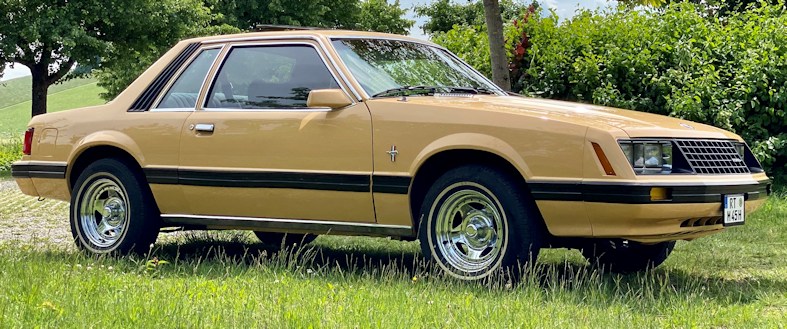 Ford Mustang Coupé Ghia, 1979, Farbe light chamois